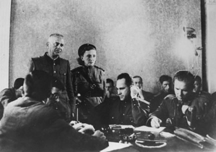 The first judicial trial of the Nazi officials at the Majdanek extermination camp took place from November 27, 1944, to December 2, 1944 in Lublin, Poland. In this photograph, Anton Thernes, standing on the left at his trial.